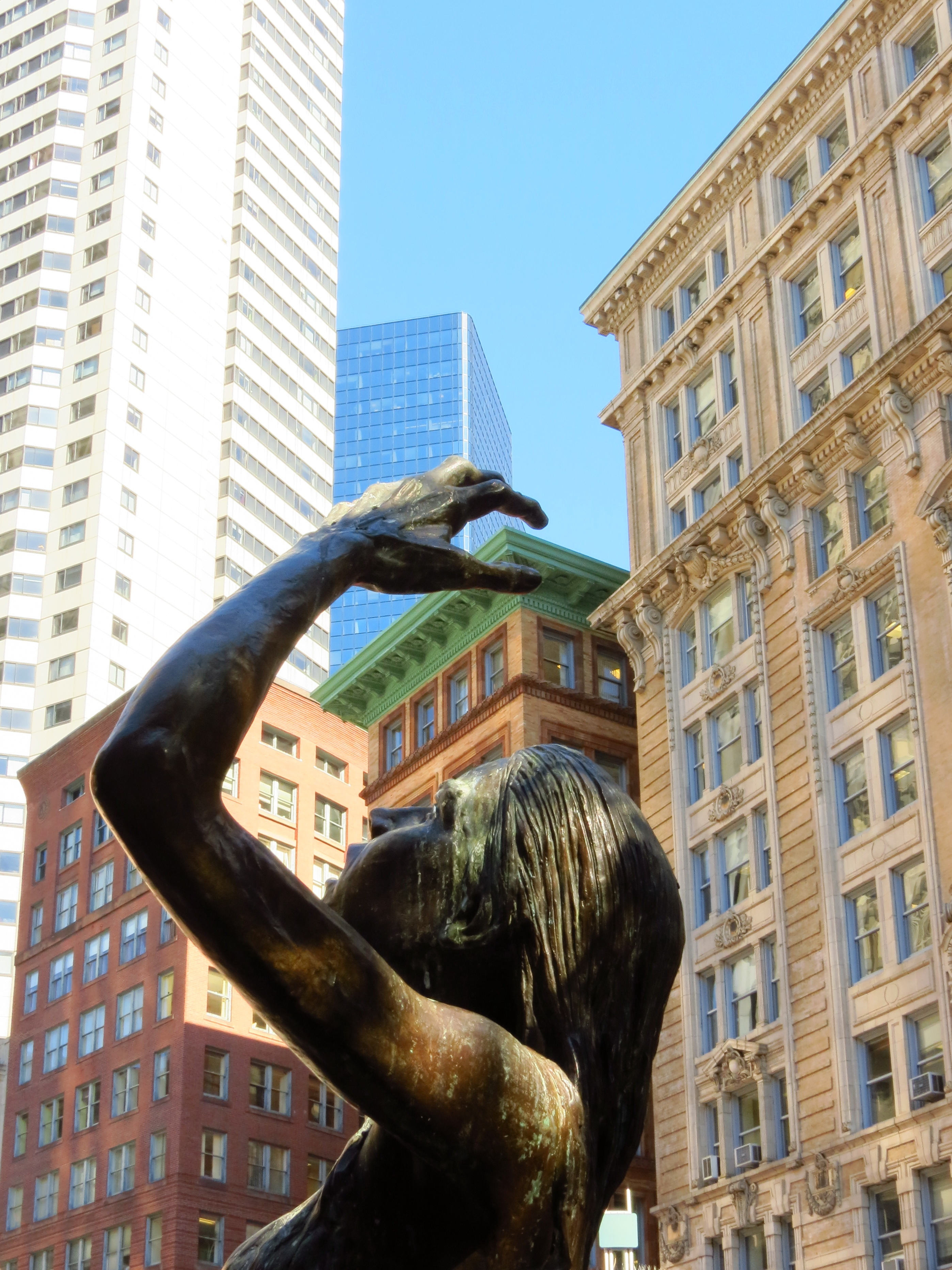 Irish Famine Memorial, Washington St, Boston.